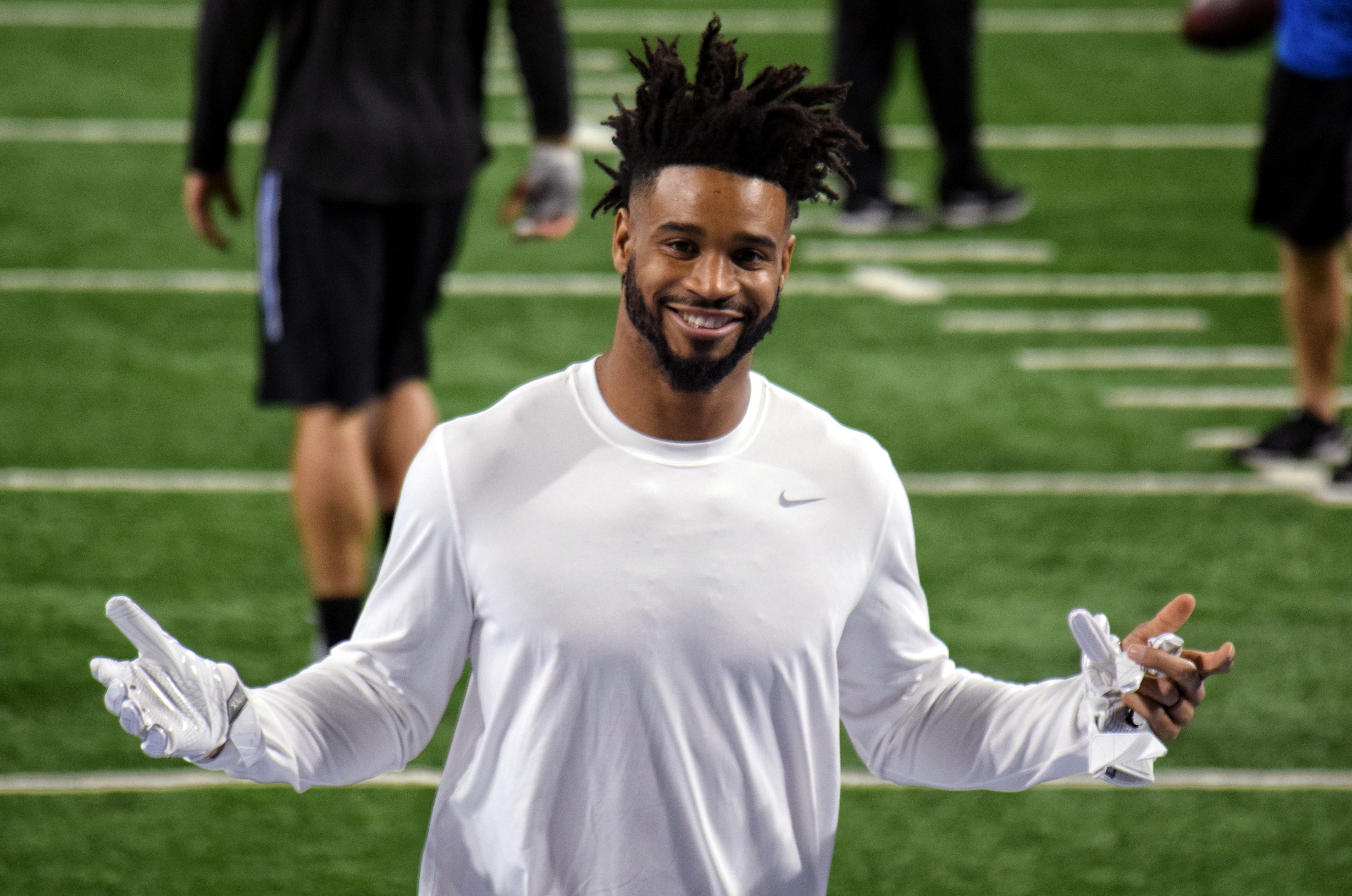 Lions Defensive Back Darius Slay Posing For A Picture On January 1 2017